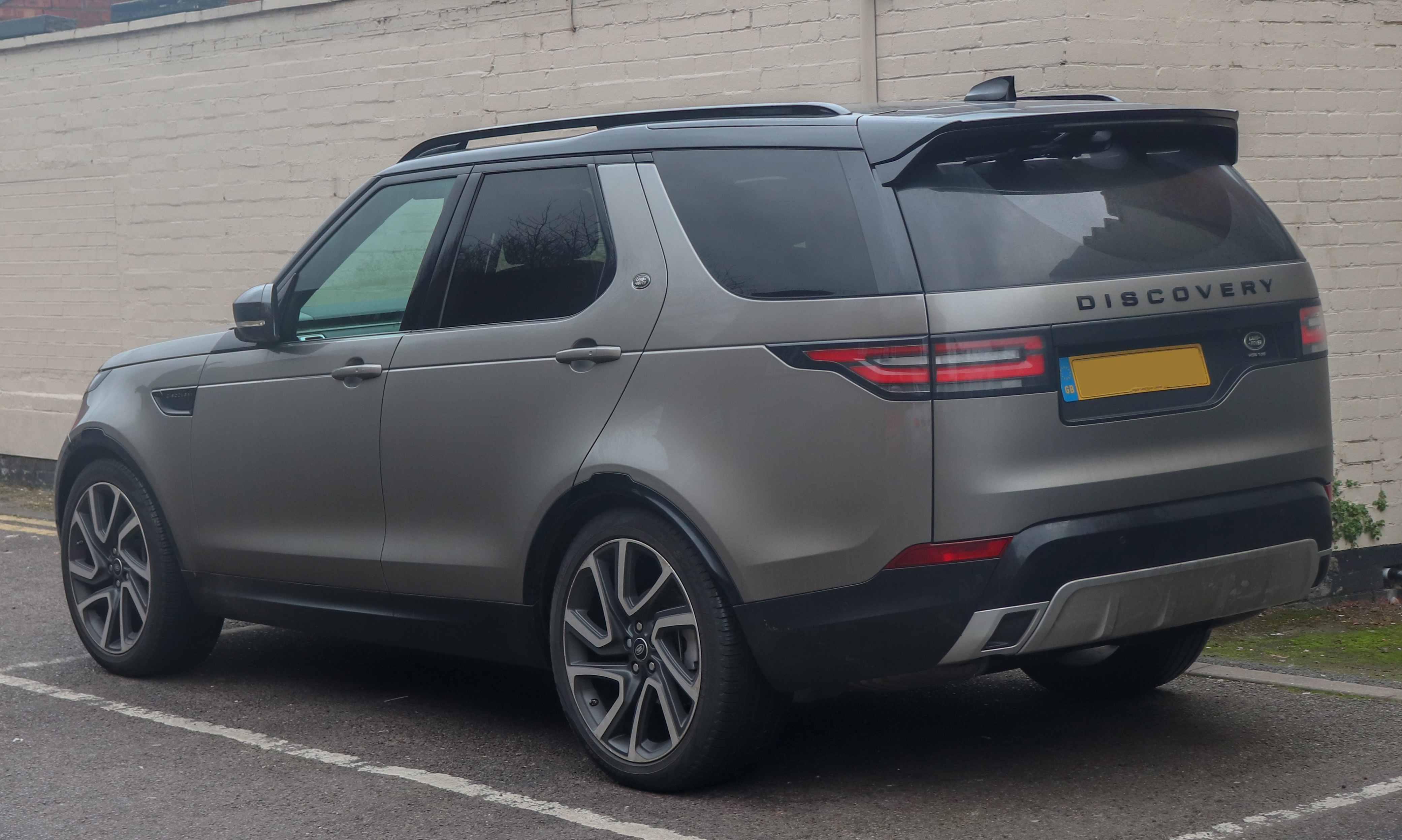 2018 Land Rover Discovery Luxury HSE TD6 3.0 Rear Taken in Leamington Spa